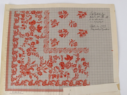 Damask pattern by the Swedish damask weaver Carl Widlund (1887-1968) from the years 1933-1939.